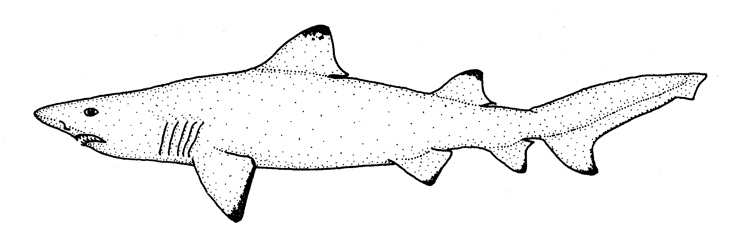 Odontaspis ferox (Smalltooth sand tiger)